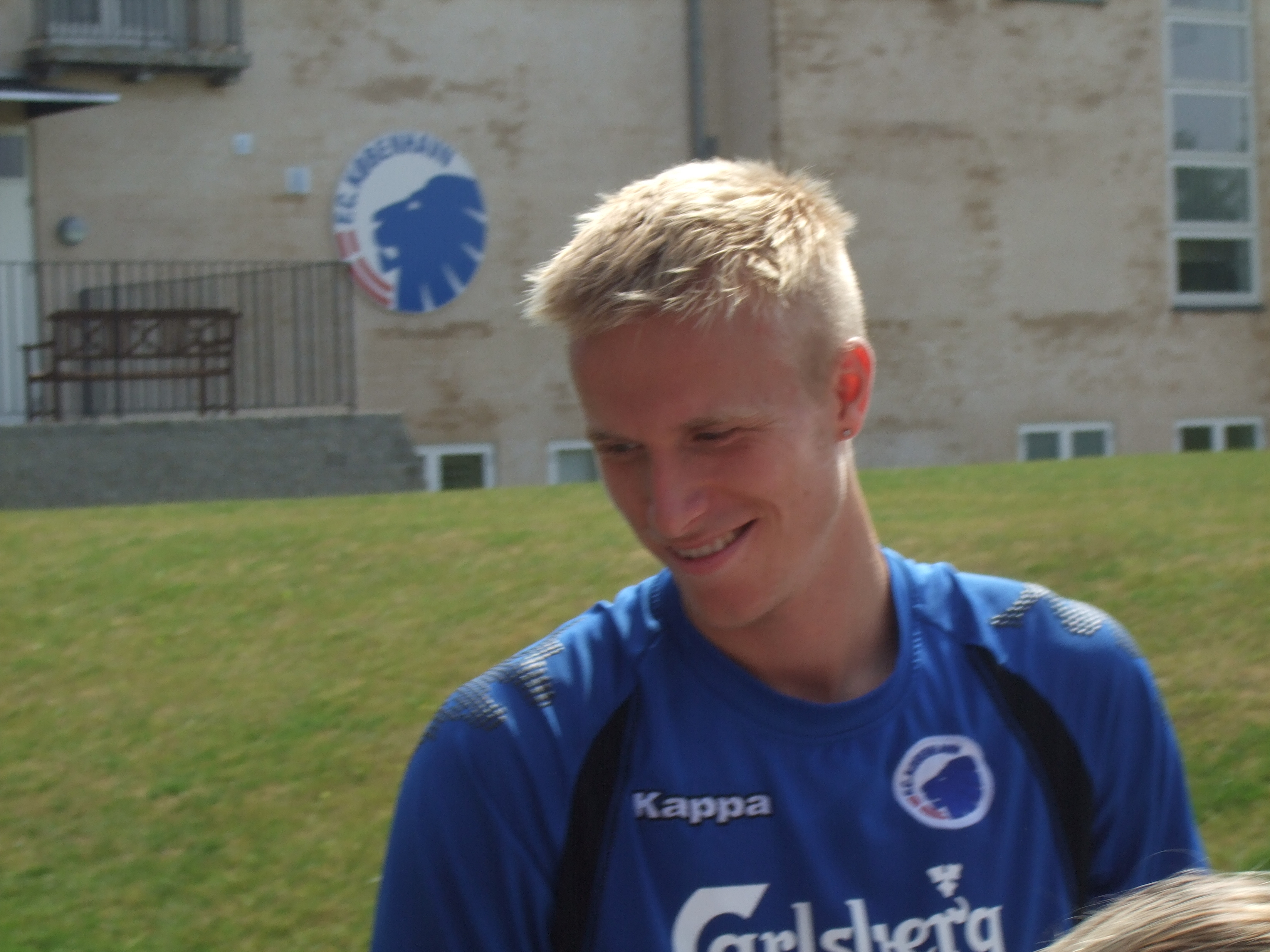 F.C. København defender Oscar Wendt signing autographs after practice. Picture is taken at the FCK training grounds at Peter Bangs Vej.